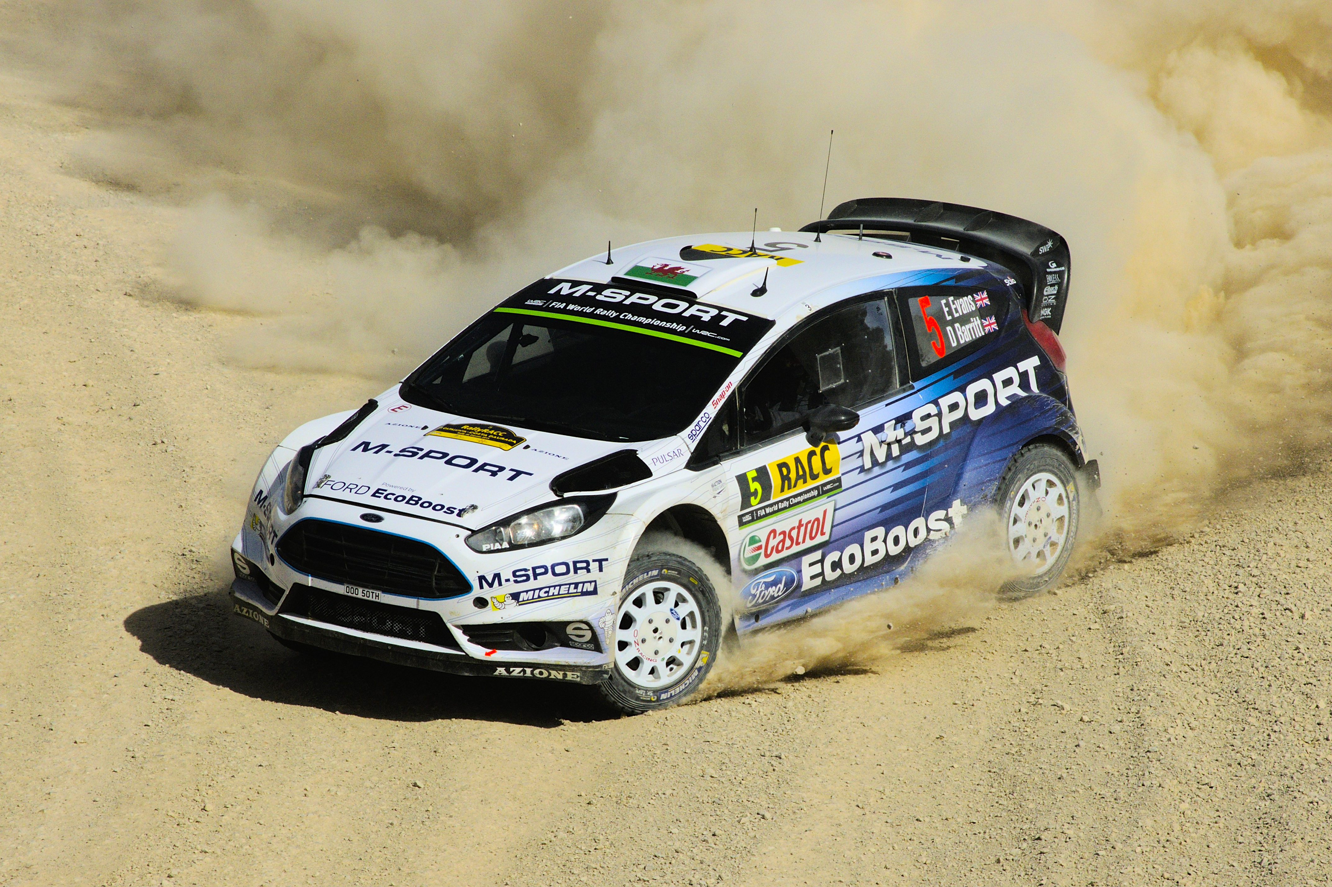 2015 Rally Catalunya Elfyn Evans